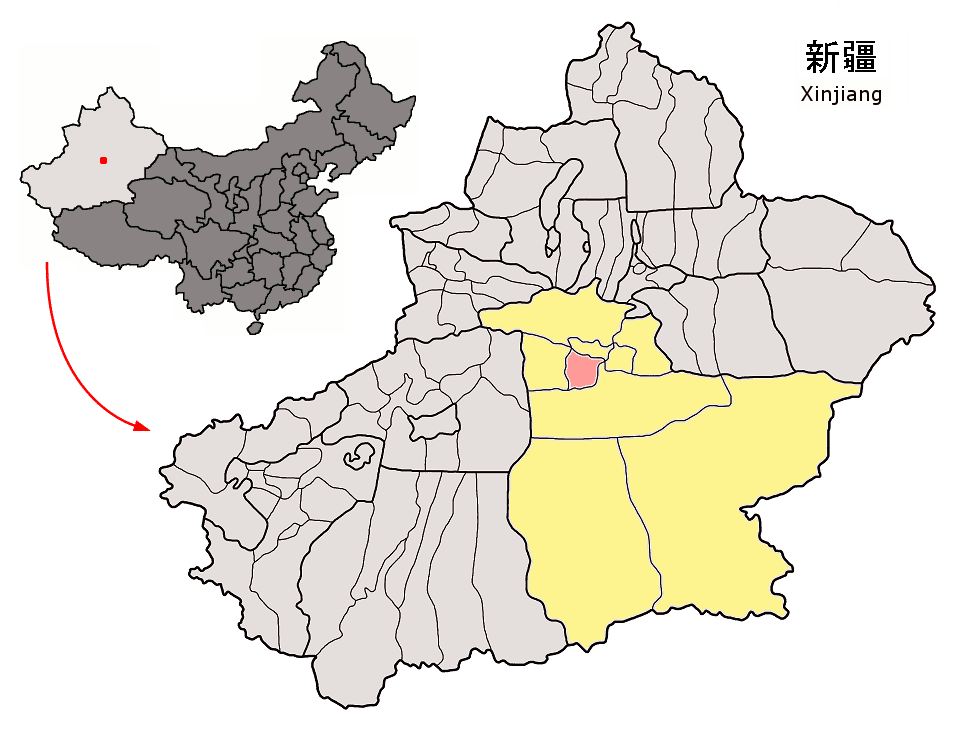 Location of Korla City (pink) and Bayin'gholin Prefecture (yellow) within Xinjiang autonomous region of China Map drawn in september 2007 using various sources, mainly : Xinjiang Uygur autonomous region administrative regions GIS data: 1:1M, County level, 1990 Xinjiang Counties map from